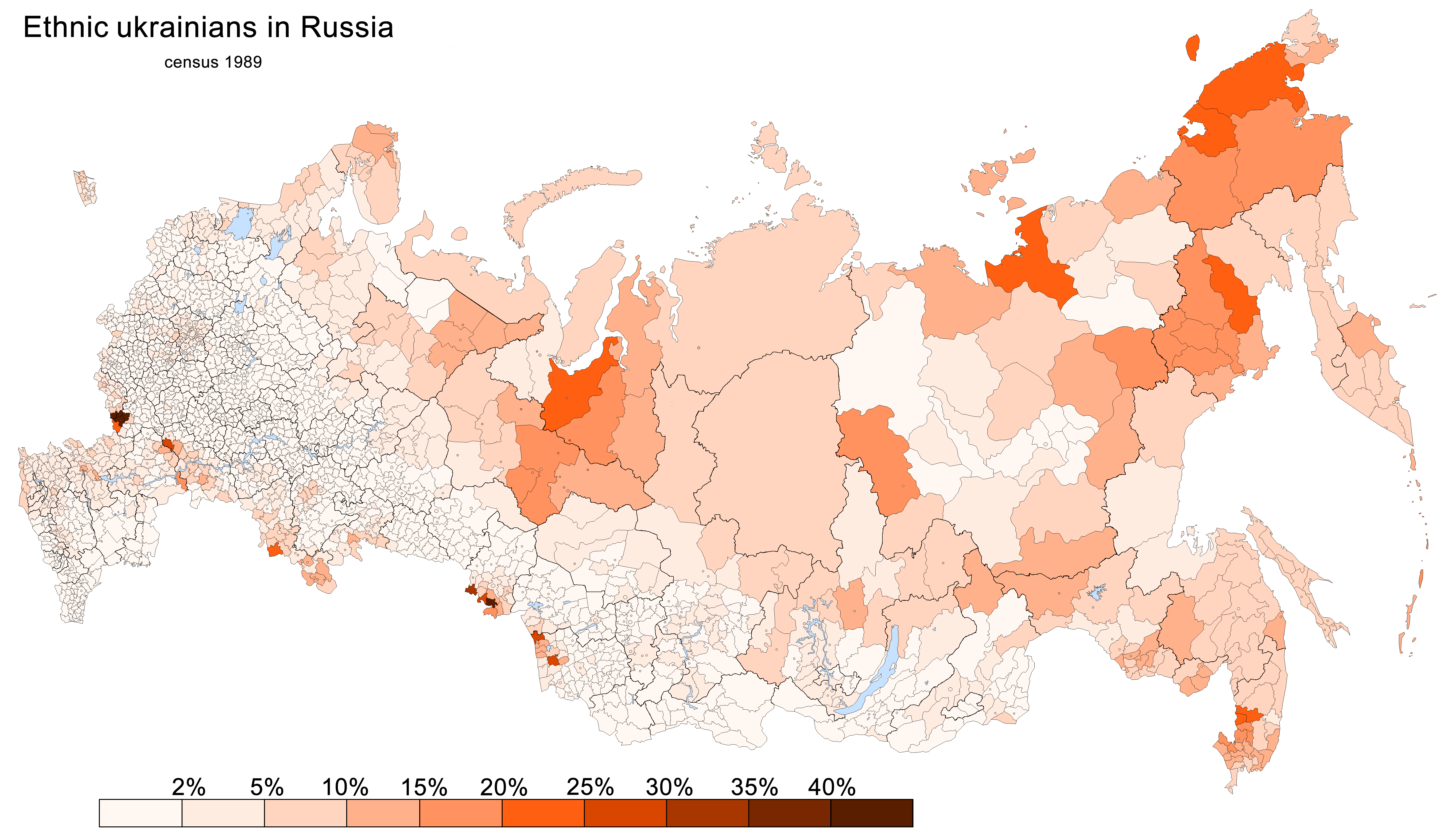 Percentage of ethnic ukrainians in Russia according to 1989 Soviet census